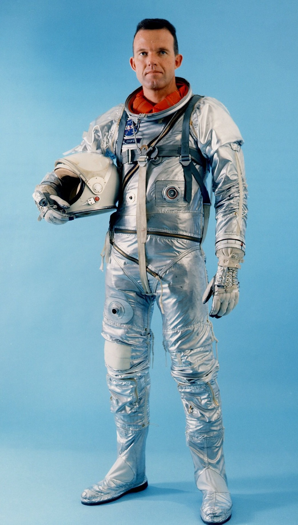 Official portrait of Gordon Cooper while wearing the Mercury spacesuit.